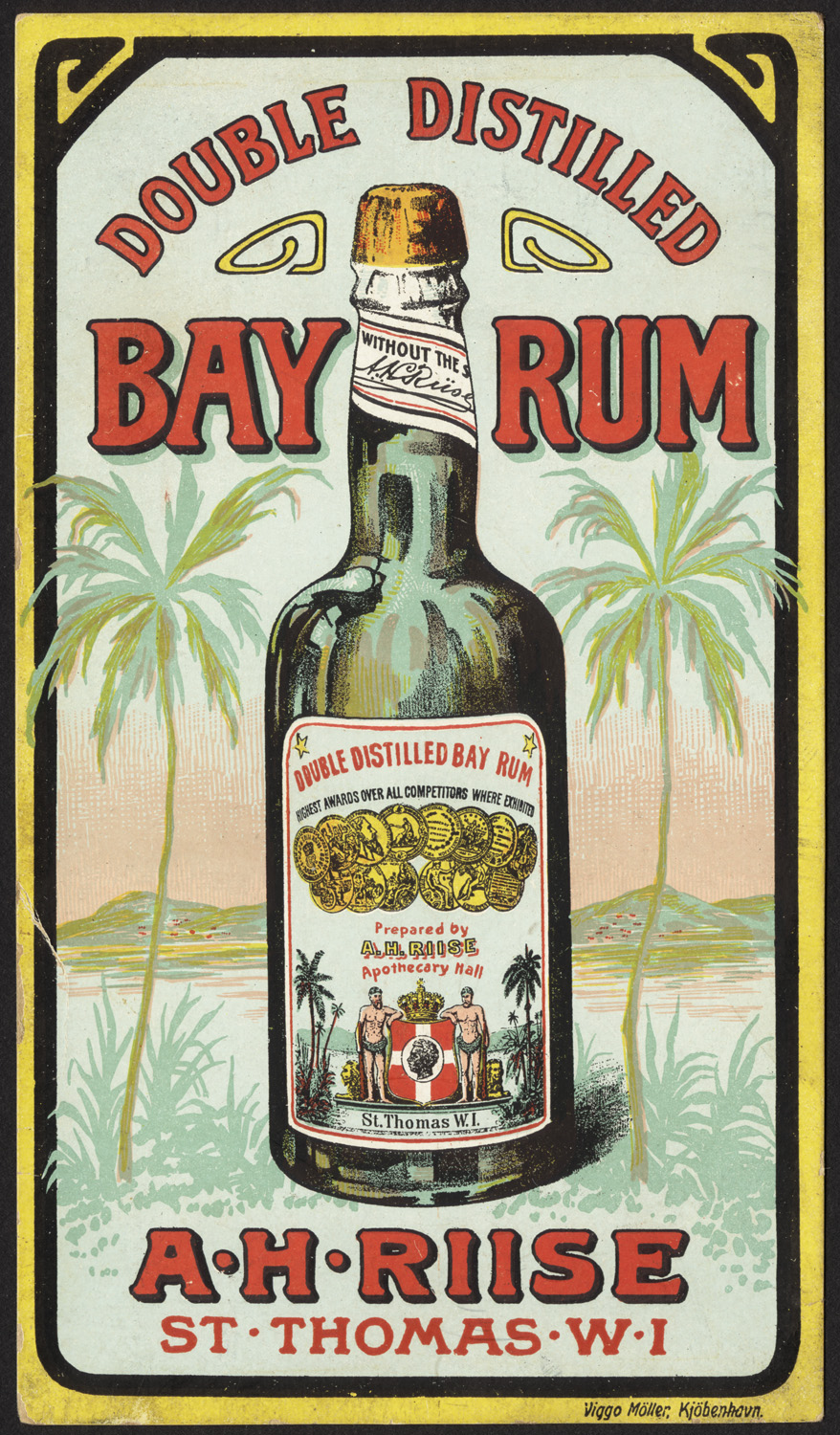 File name: 10_03_000432a Binder label: Beverages Title: Double distilled bay rum [front] Created/Published: Kjobenhavn [Copenhagen, Denmark] : Viggo Moller Date issued: 1870 - 1900 (approximate) Physical description: 1 print : chromolithograph ; 15 x 9 cm. Genre: Advertising cards Subject: Alcoholic beverages Notes: Title from item. Statement of responsibility: A. H. Riise Collection: 19th Century American Trade Cards Location: Print Department Rights: No known restrictions.